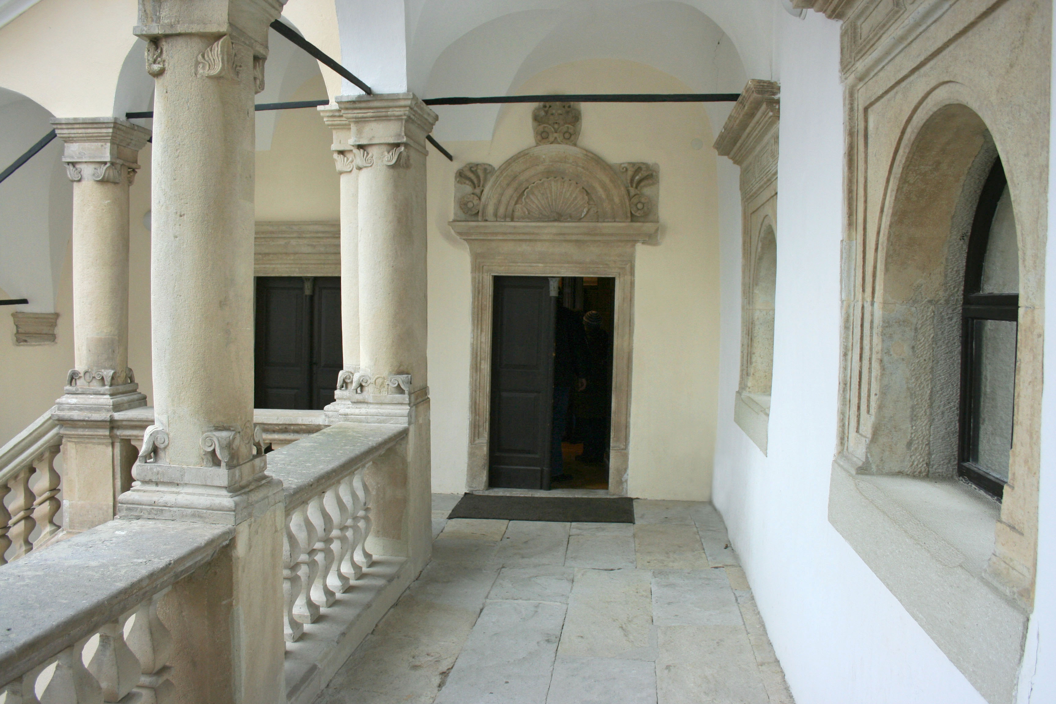 Sárospatak - Renaissance corridor (Lorántffy-loggia), with a door, Hungary, 16th century This is a photo of a monument in Hungary, Identifier: 18069